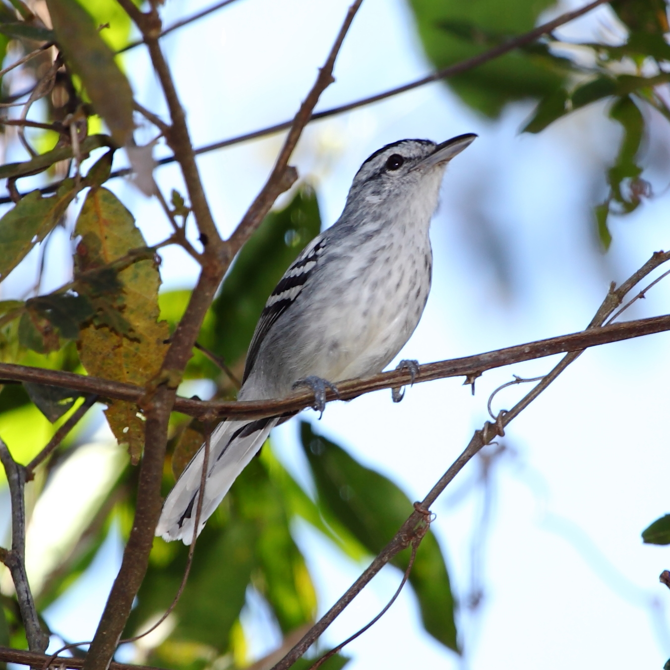 Large-billed Antwren (male) at Dourado - SP - Brazil